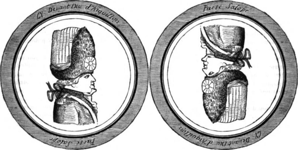 Armand II de Vignerot du Plessis de Richelieu, duke of Aiguillon (1750-1800), as himself (upwards) and poissarde (downwards).